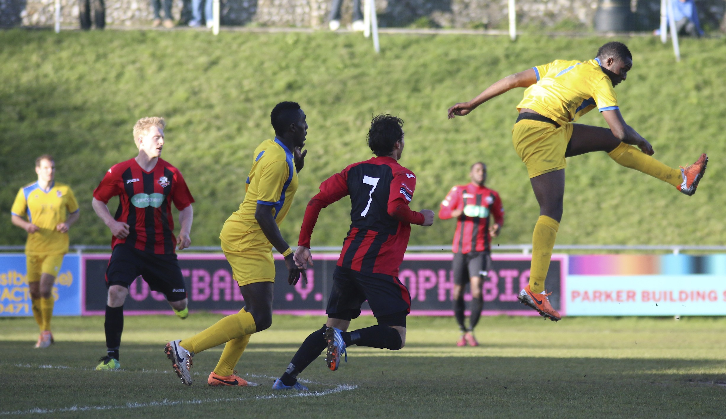 A Kingstonian F.C. player (yellow) shoots against Lewes F.C.